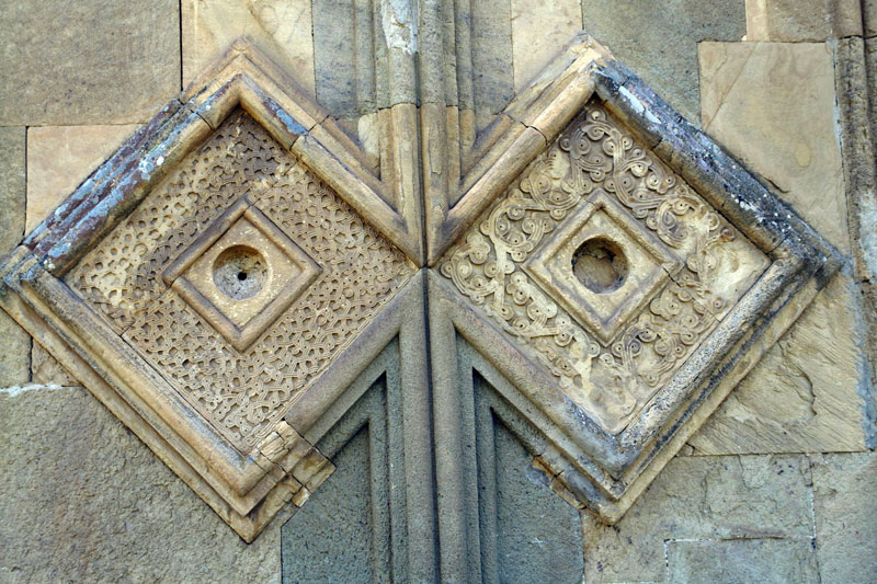 Gudarekhi monastery in Samegrelo